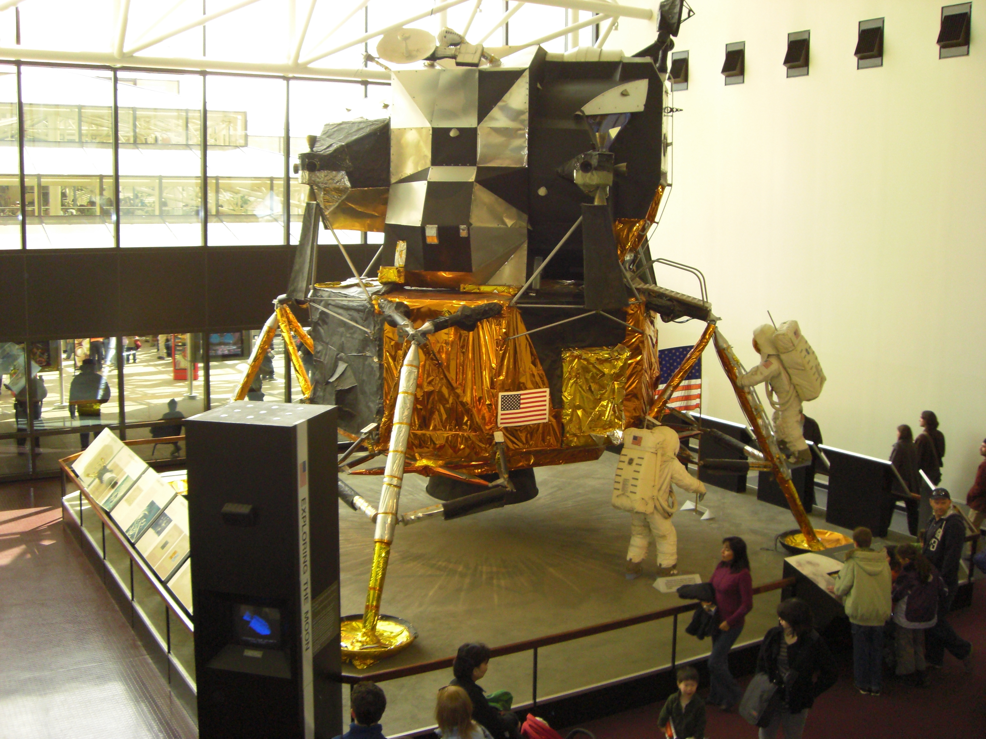 Apollo Lunar Module, National Air and Space Museum, Washington, D.C., USA